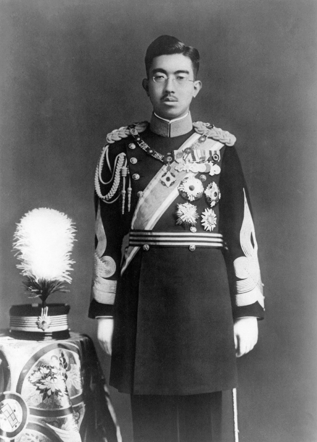 Hirohito in dress uniform